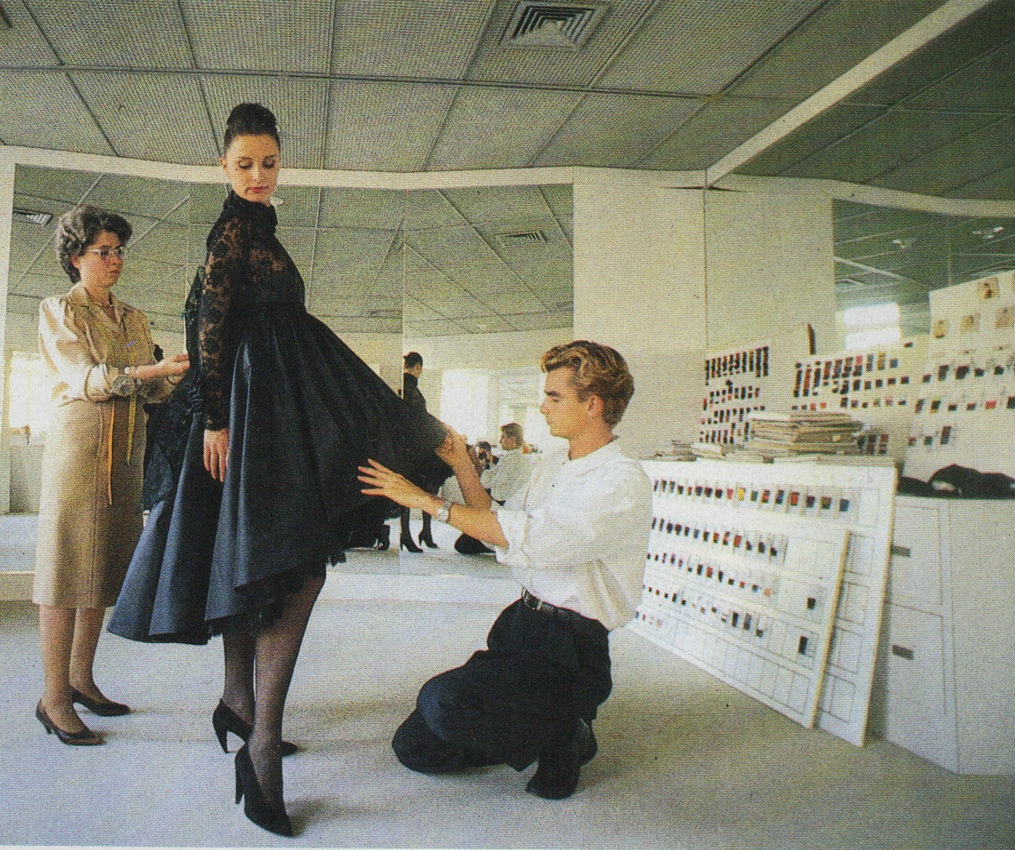 This is a picture of Tilmann Wröbel when he was competiting for the famous Colbert Prize. This photo was taken and published in the FEMME Magazine during the 80's.